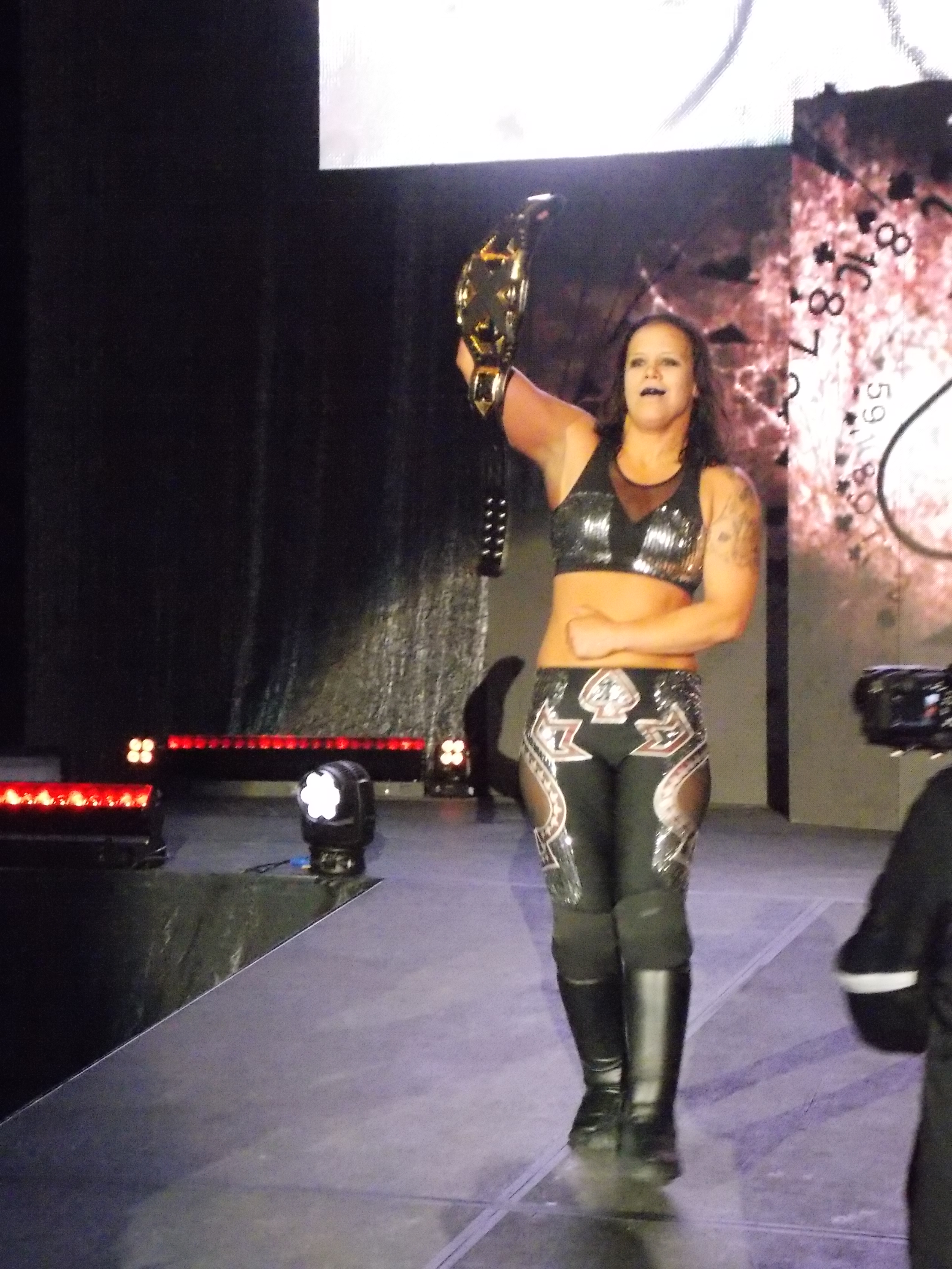 Shayna Baszler at an NXT Live Event in Omaha, Nebraska, USA on Thursday, April 25, 2019